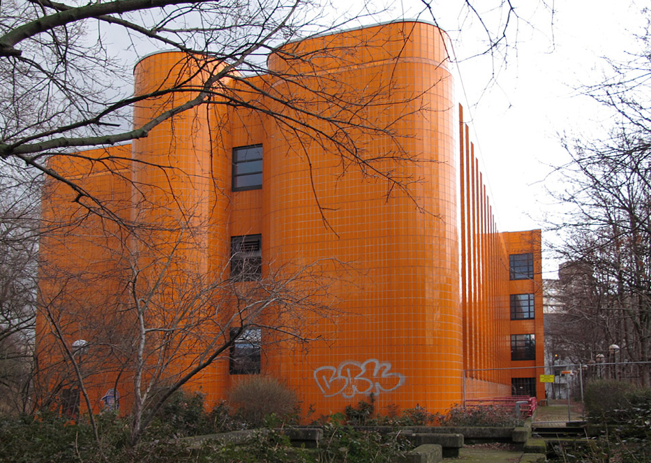 Charlottenburg Englische Straße 20 TU-Institut für Keramik 2015 abgerissen